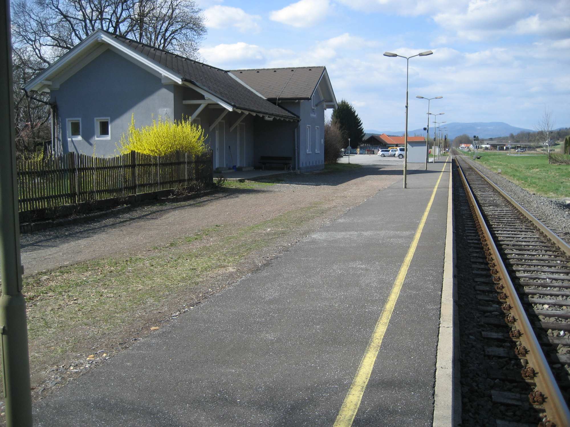 train station Bad Waltersdorf in Styria